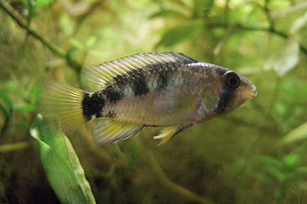 Female Apistogramma sp. „Papagei“